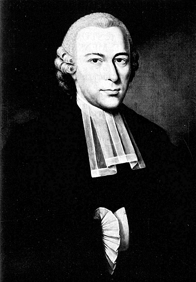 Meinard Tydeman (1741-1825) Dutch jurist and historian